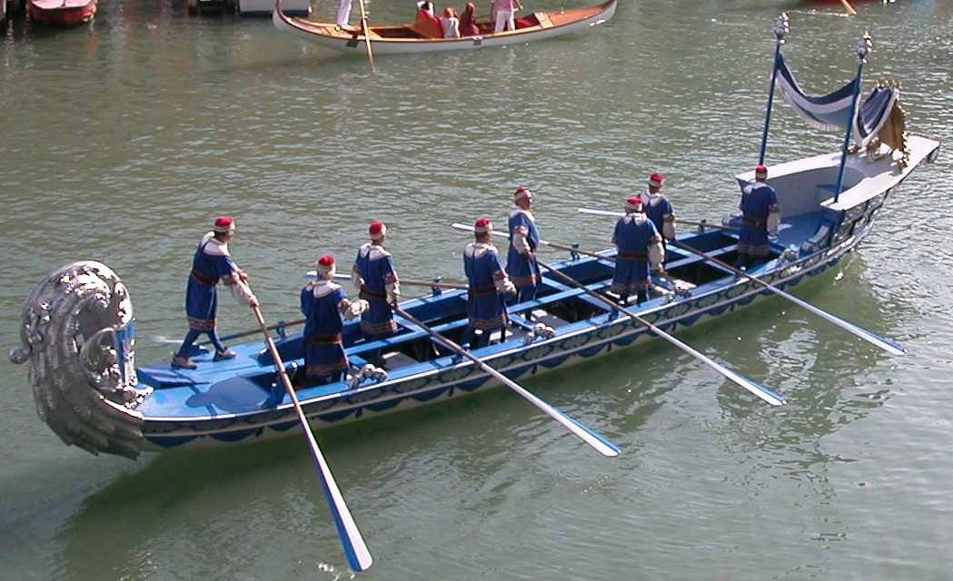 The 2008 edition of the Regata Storica di Venezia, in Venice (Italy), being a regatta in historical costumes.